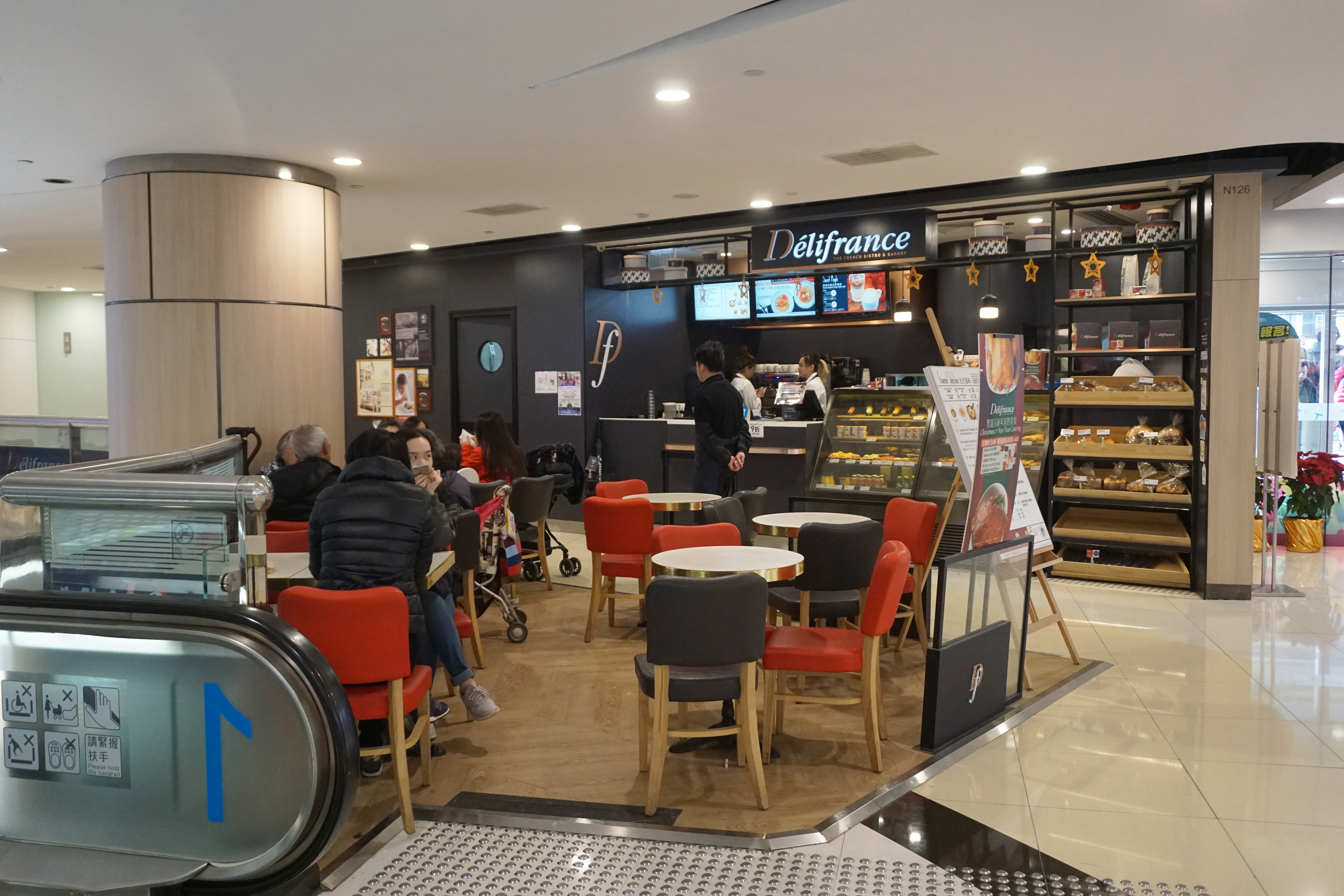 Delifrance in Tin Shui Wai, Hong Kong.